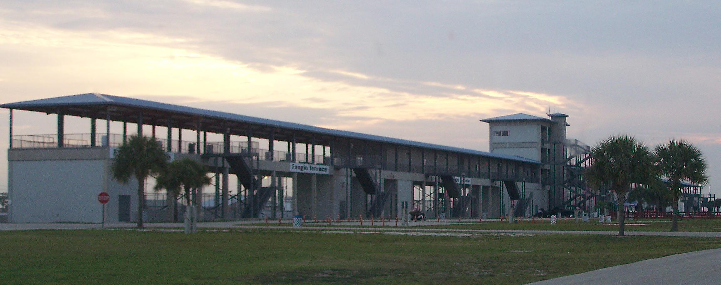 Sunrise at Sebring racetrack